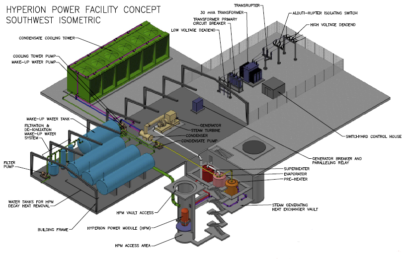 U.S. Nuclear Regulatory Commission concept drawing of a Hyperion Power Module site.